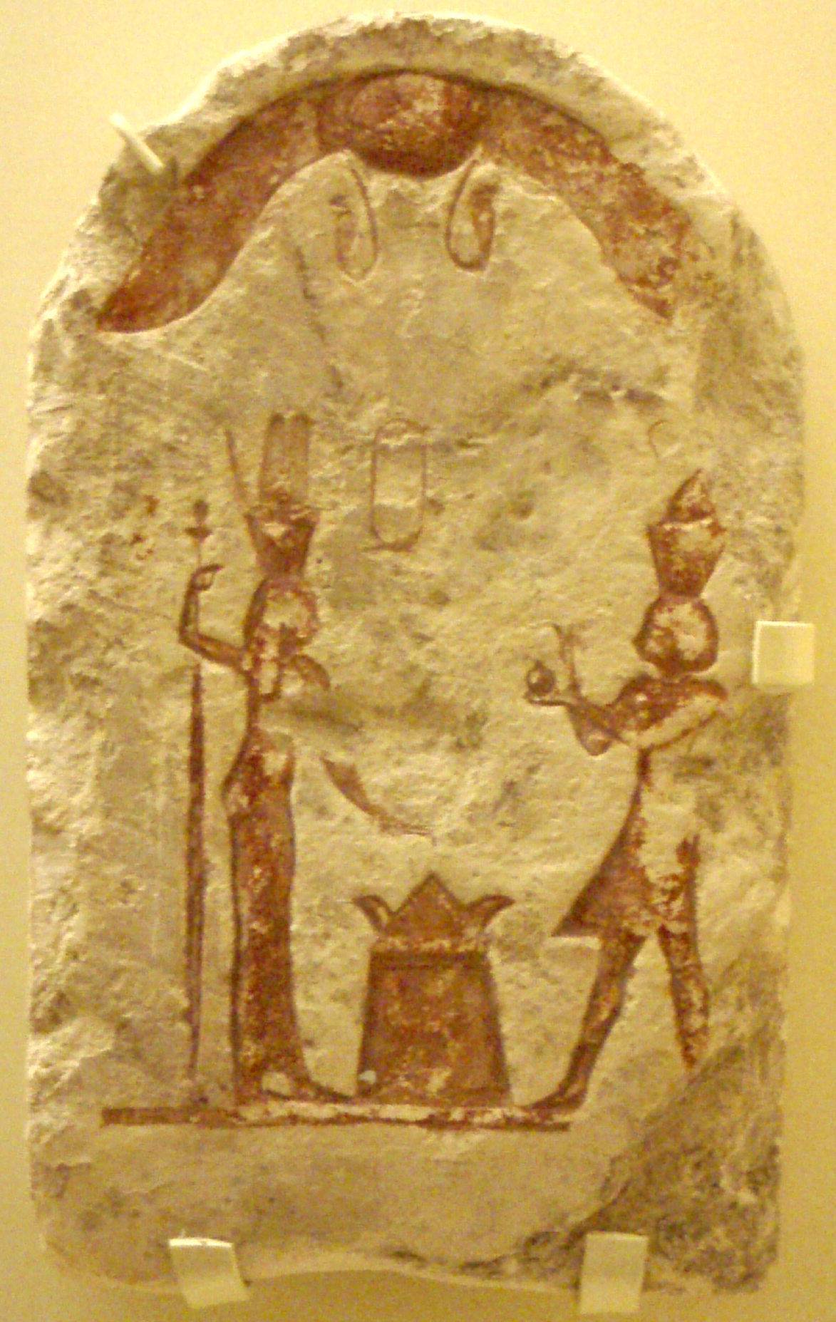 Stela depicting a deified Arsinoe II being given offerings from Ptolemy II.